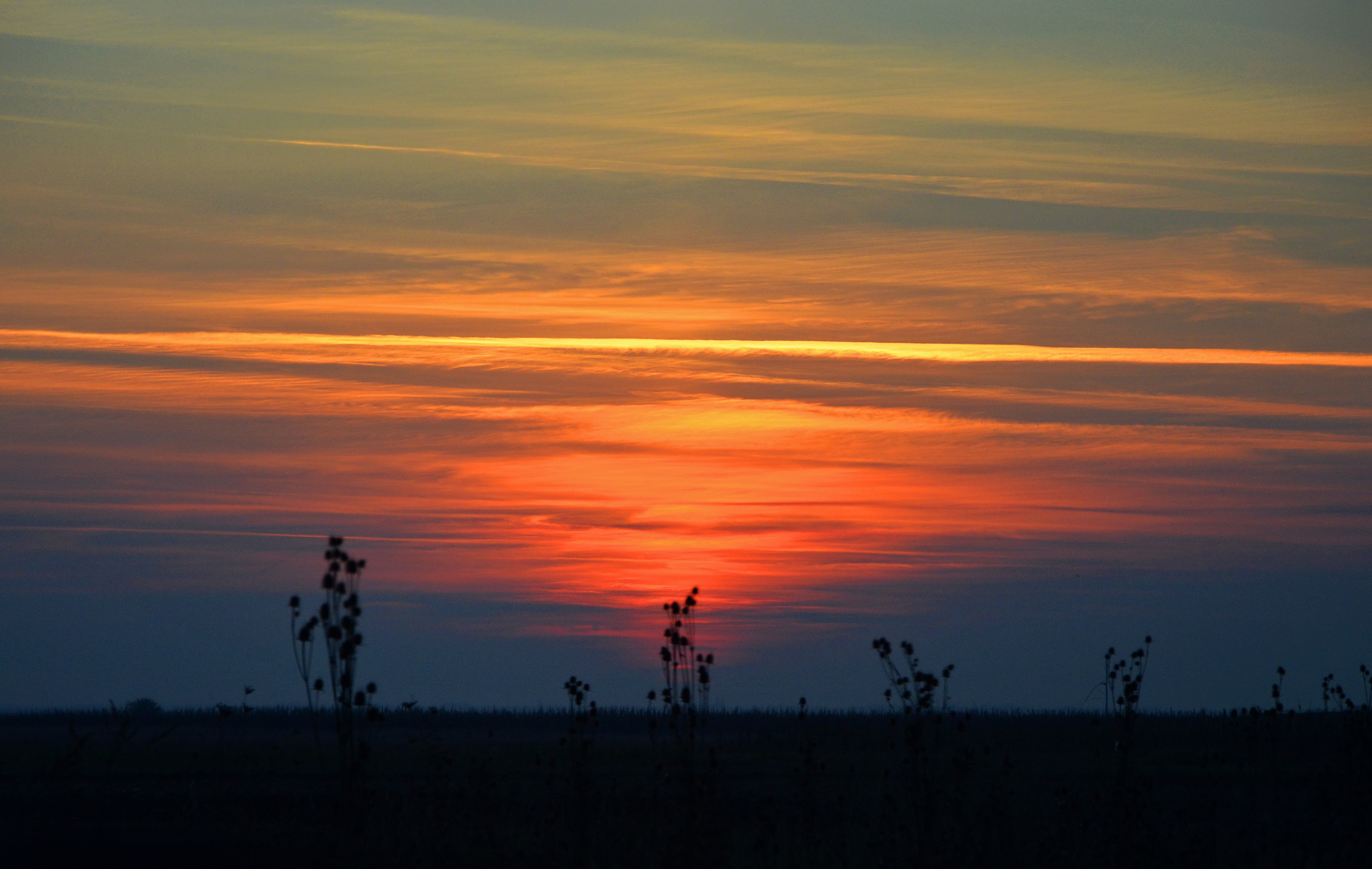 Ово је фотографија заштићеног природног добра у Србији под шифром: РП11This is a a photo of a natural area in Serbia with ID: РП11 Sunset over the great plain Српски (ћирилица): Специјални резерват природе Селевењске пустаре Srpski (latinica): Specijalni rezervat prirode Selevenjske pustare